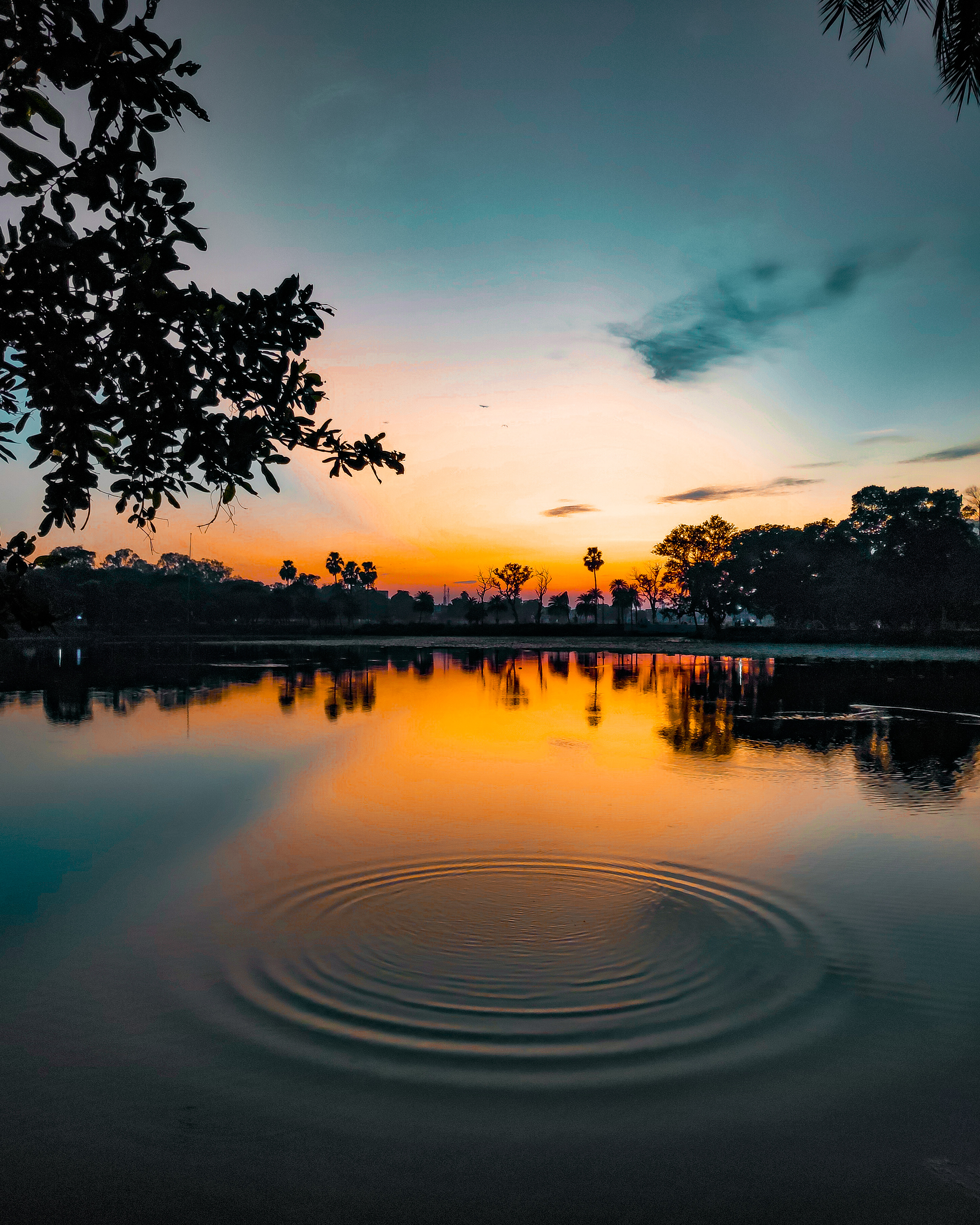 Reminiscence: our favourite spot by the lakeside was being cleaned so we went around it to find another.